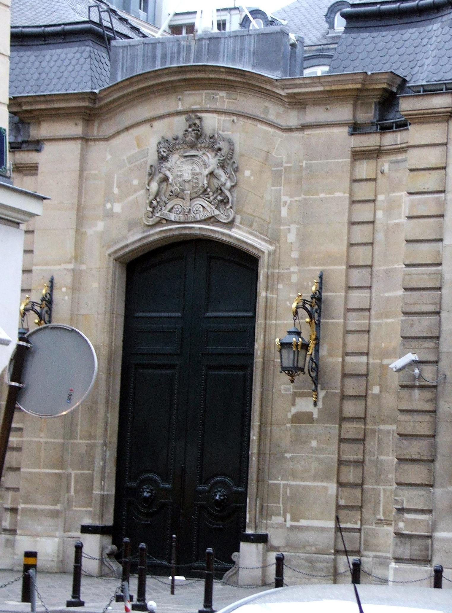 Embassy of United Kingdom, 35 rue du Faubourg Saint-Honoré, Paris - France.